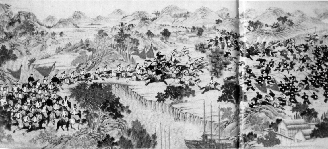 A scene of the Dungan revolt (1862-1877)